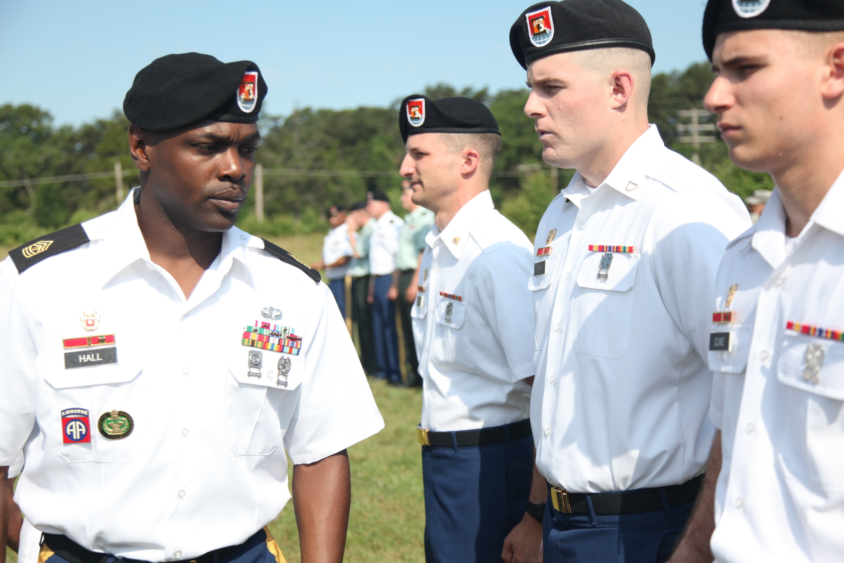 U.S. Army First Sergeant Vernell Hall (left) with the 55th Signal Company (Combat Camera), inspects soldiers' uniforms during a Class B inspection at Fort George G. Meade